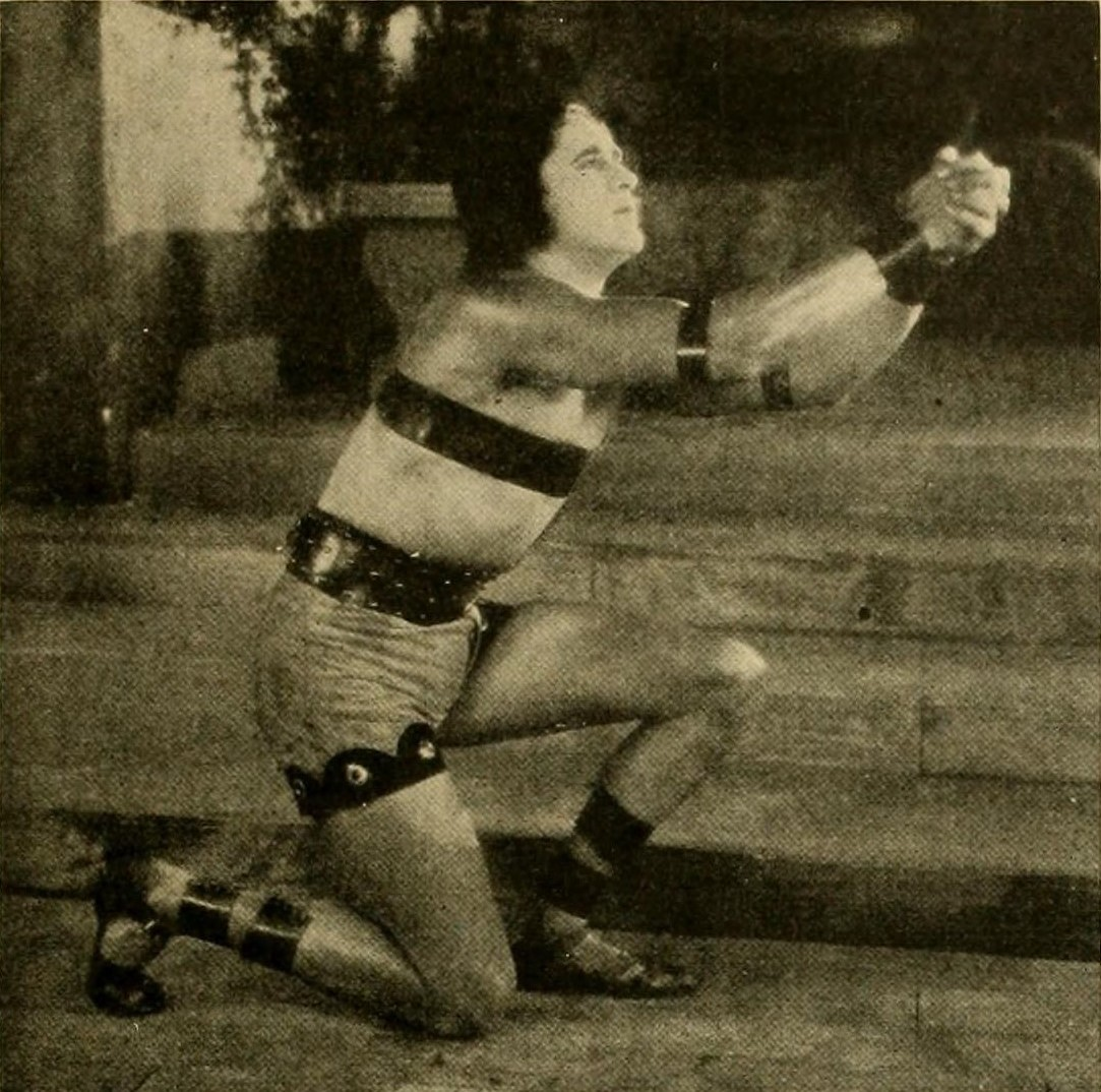 George Walsh in the role of Judah Ben-Hur, which was later passed to Ramon Novarro.